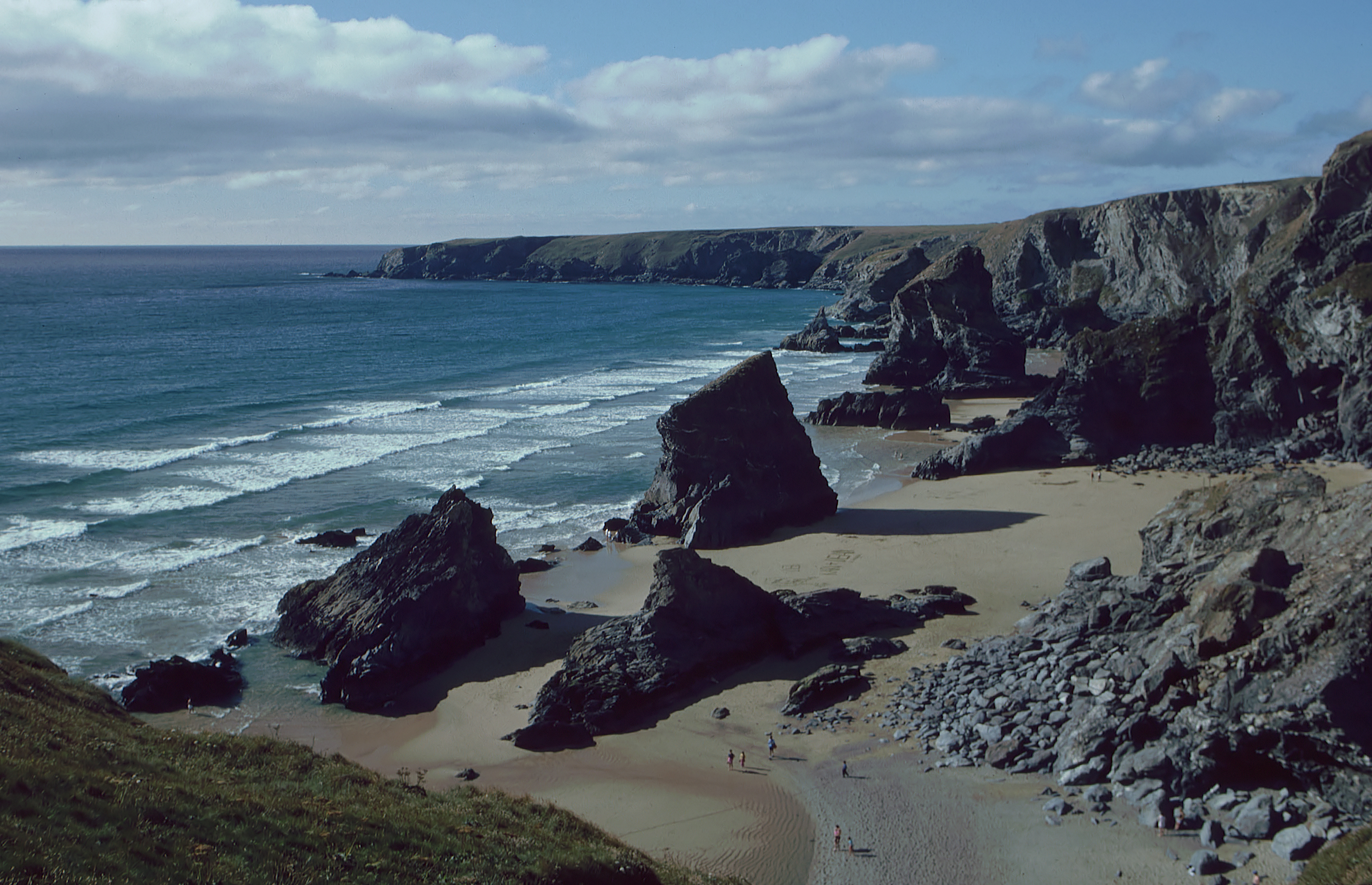 Bedruthan Steps at low tide; Cornwall/UK